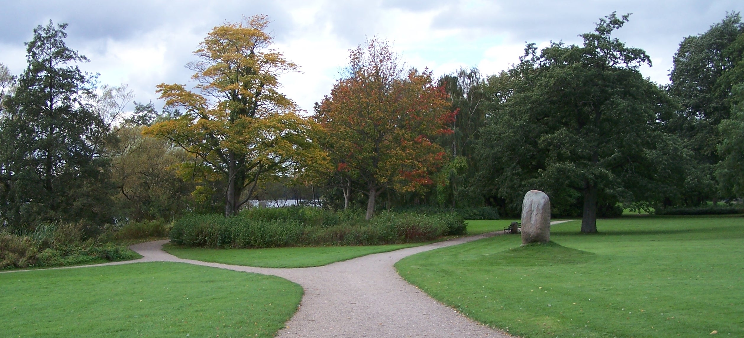 Academy garden